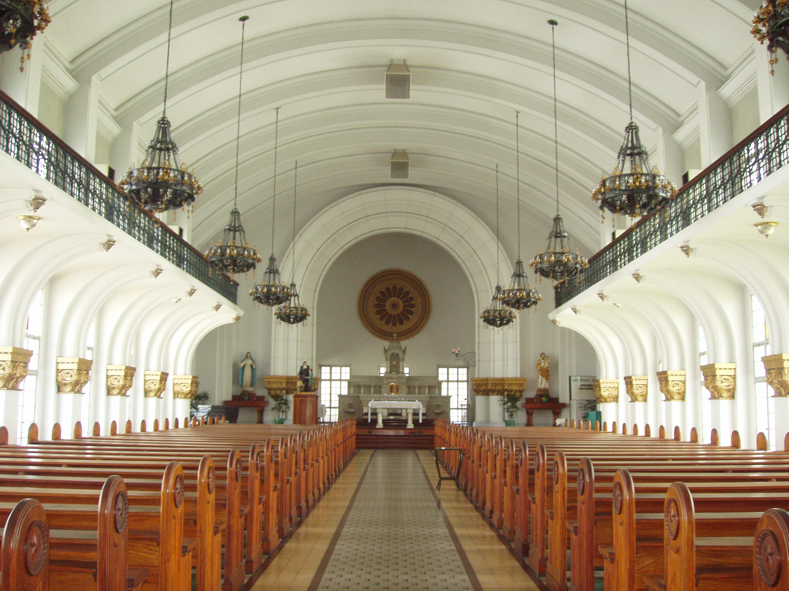 The Chapel of the Most Blessed Sacrament at De La Salle University-Manila. Self-taken. Summary The Chapel of the Most Blessed Sacrament at De La Salle University-Manila. Self-taken.